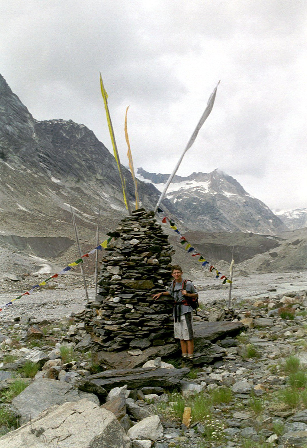 Big cairn in the Lauteraargletscher valley, Bernese Alps, Bern canton, Switzerland. The flags were placed there by buddhist monks.